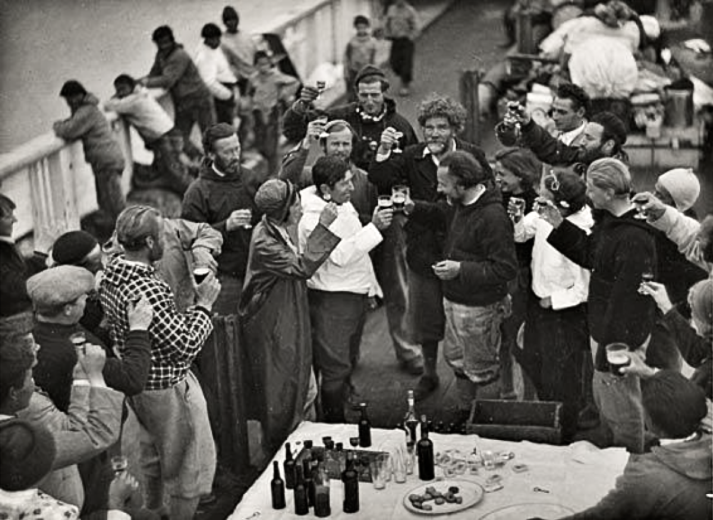 Greenlandic–Danish polar explorer and anthropologist Knud Rasmussen (1879–1933) and German film maker Arnold Fanck (1889–1974) aboard Rasmussen's ship M/S Th. Stauning in 1932. Fanck's film S.O.S. Iceberg was filmed in Greenland under the protectorate of Rasmussen. The picture shows the crews of Rasmussen and Fanck celebrating with a drink on the occasion of the start of Rasmussen's seventh Thule expedition.